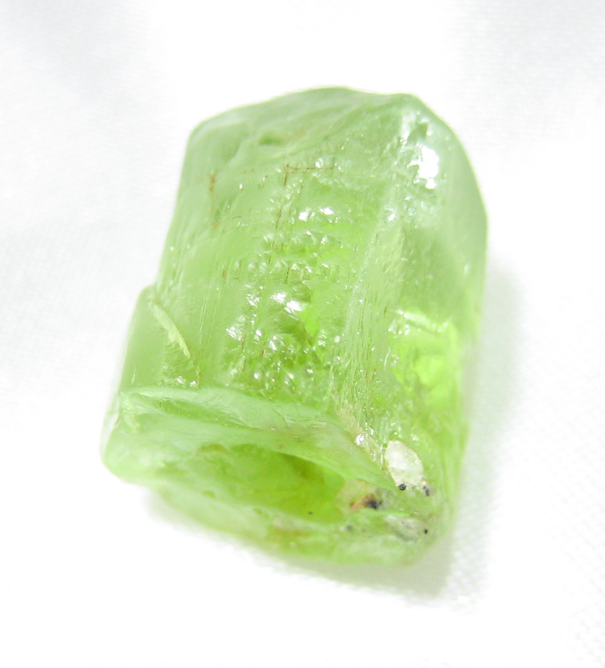 Peridot. taken by Azuncha